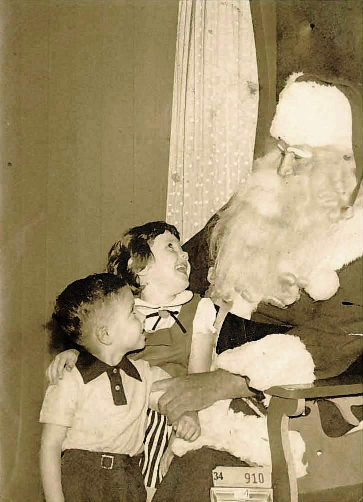 Jesse Carlock, Jane Carlock and grandfather Harry J. Olivier, Jr. Christmas 1954 - D. H. Holmes department store, New Orleans, Louisiana